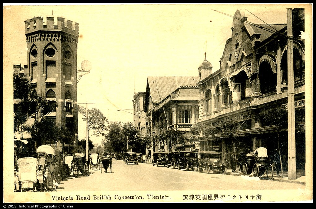 Postcard from the 1920s showing Victoria Road, the main thoroughfare of the British concession of Tientsin (Tianjin).